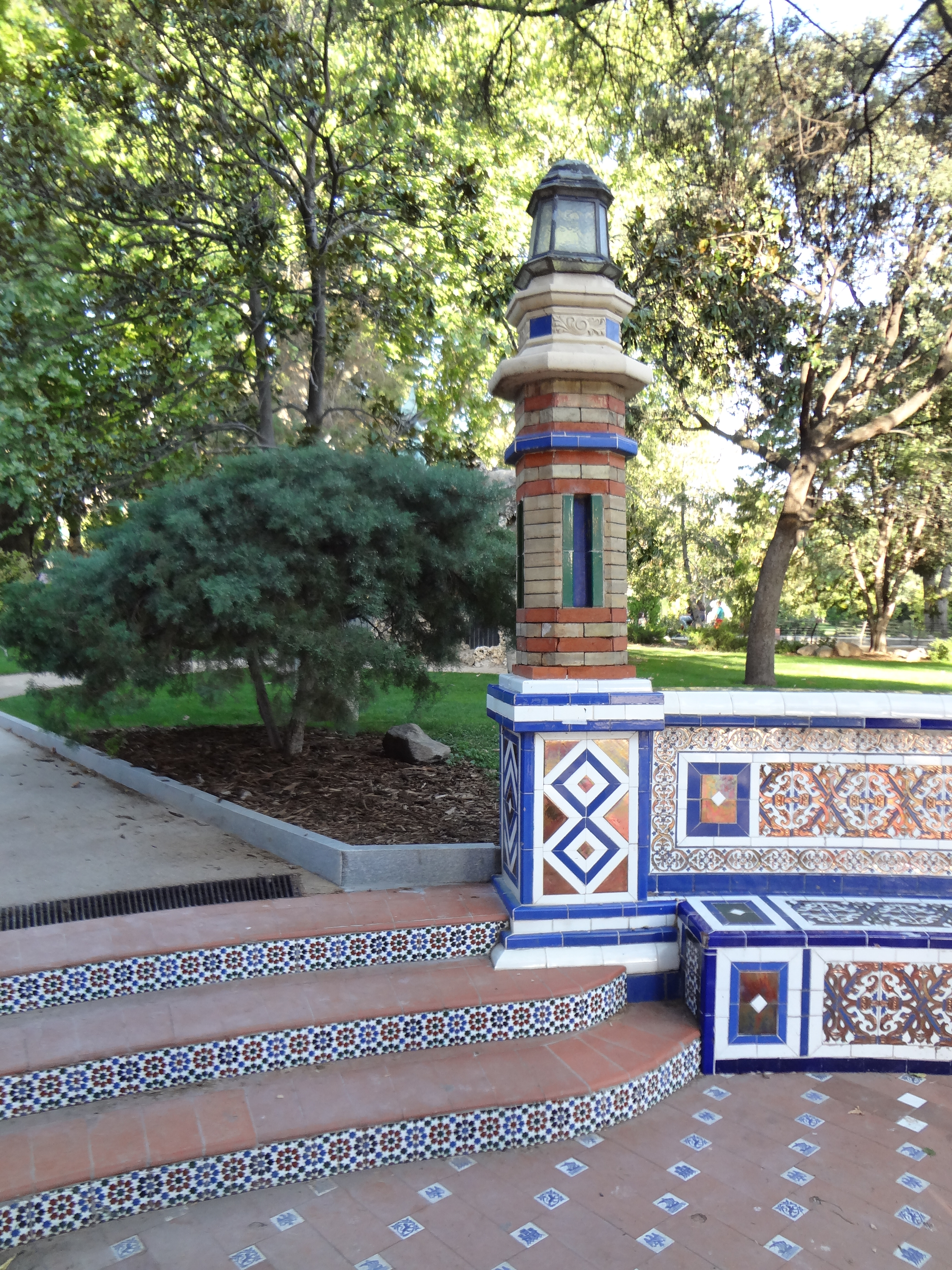 Biblioteca Pública Retiro in Madird, Spain